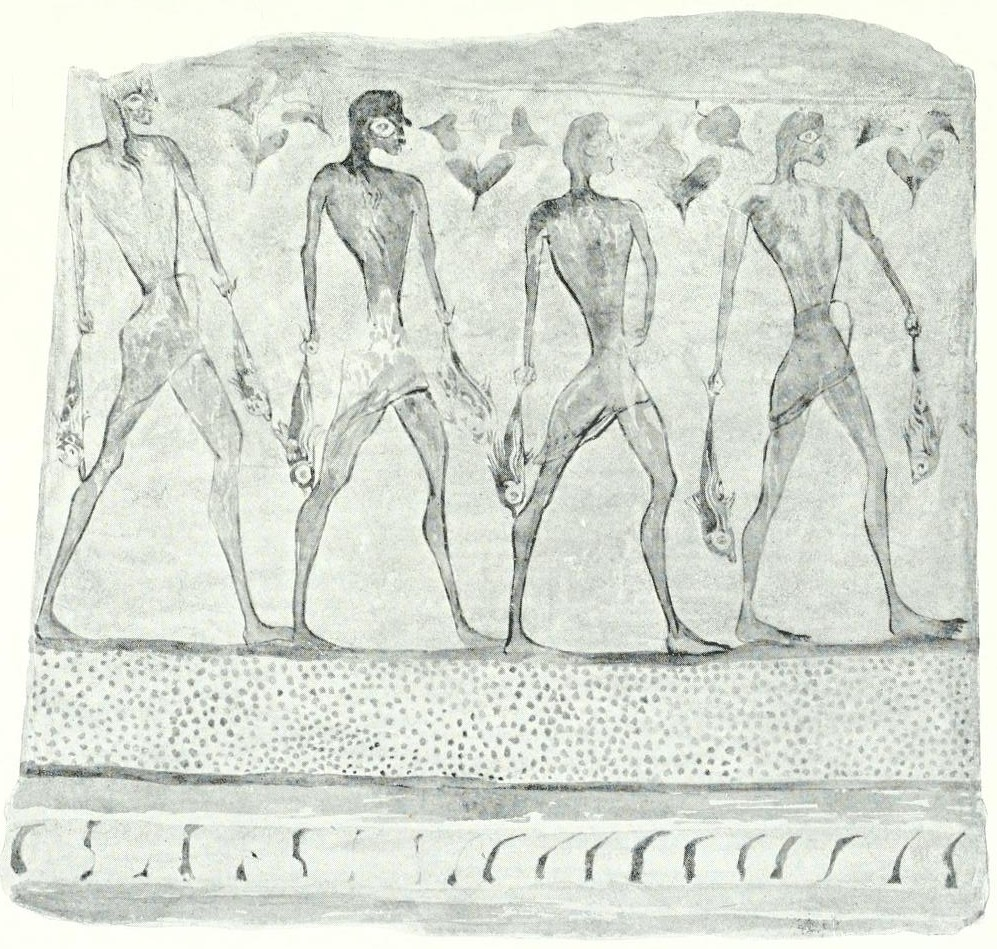 Fishermen painting, redrawn from a vase pedestal found at Phylakopi, which is now in the National Archaeological Museum of Athens